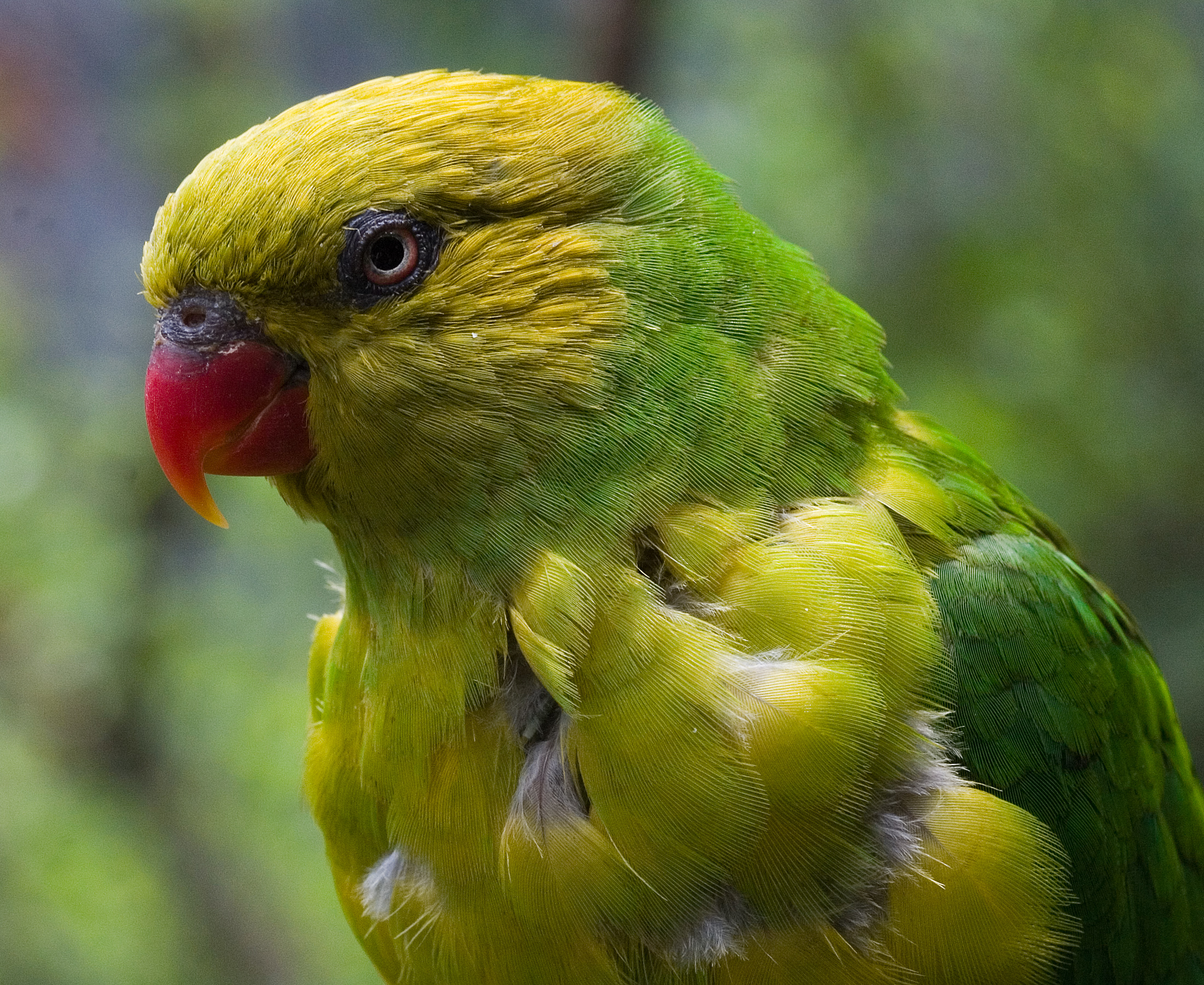 Perfect Lorikeet (Trichoglossus euteles) at the Oregon Zoo.